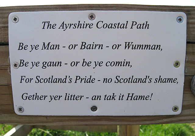 A sign on the Ayrshire Coastal Path This sign on a gate is a gentle reminder to all walkers to take their litter home.